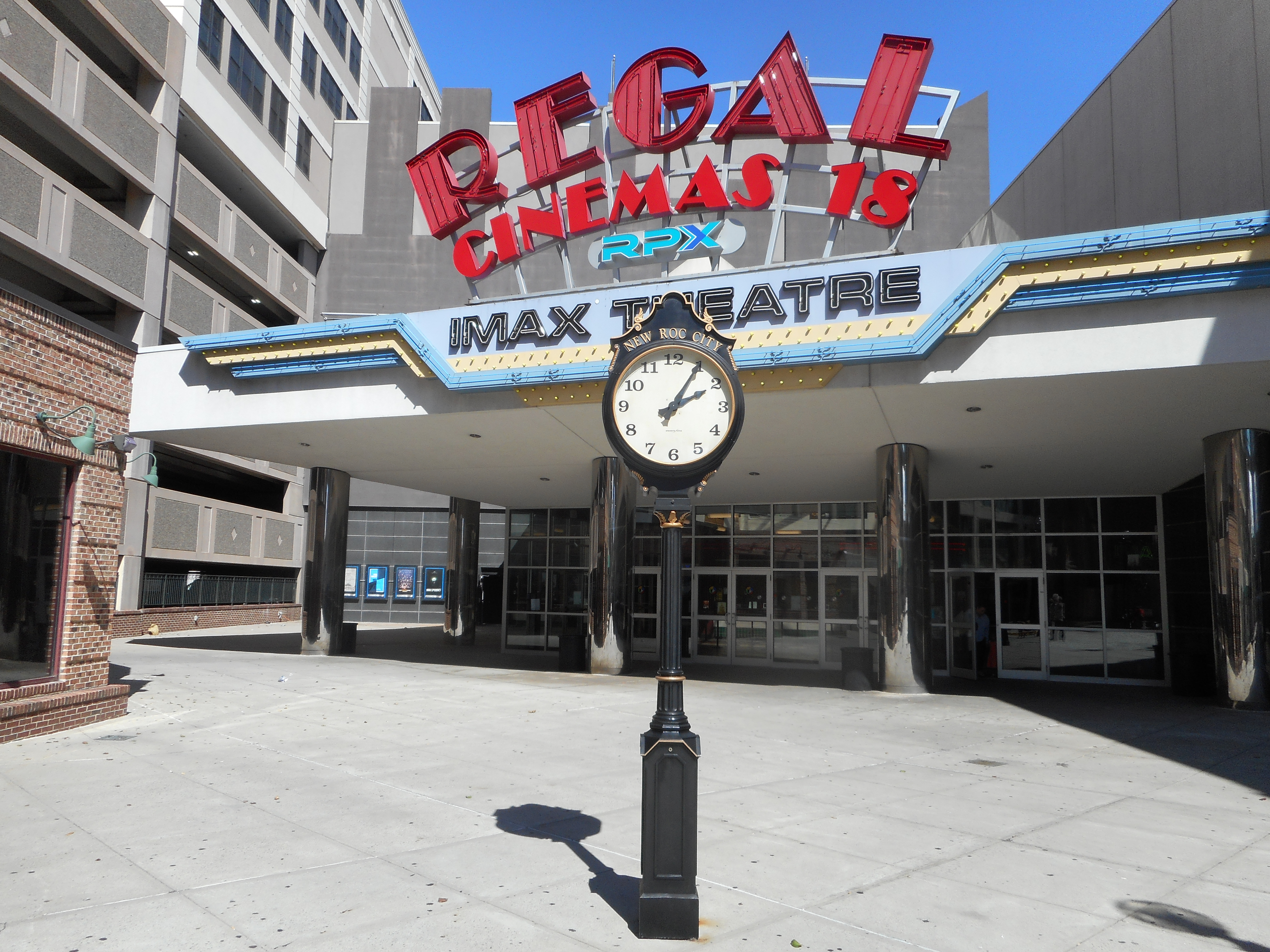 New Roc City in New Rochelle, New York. Details to come later.